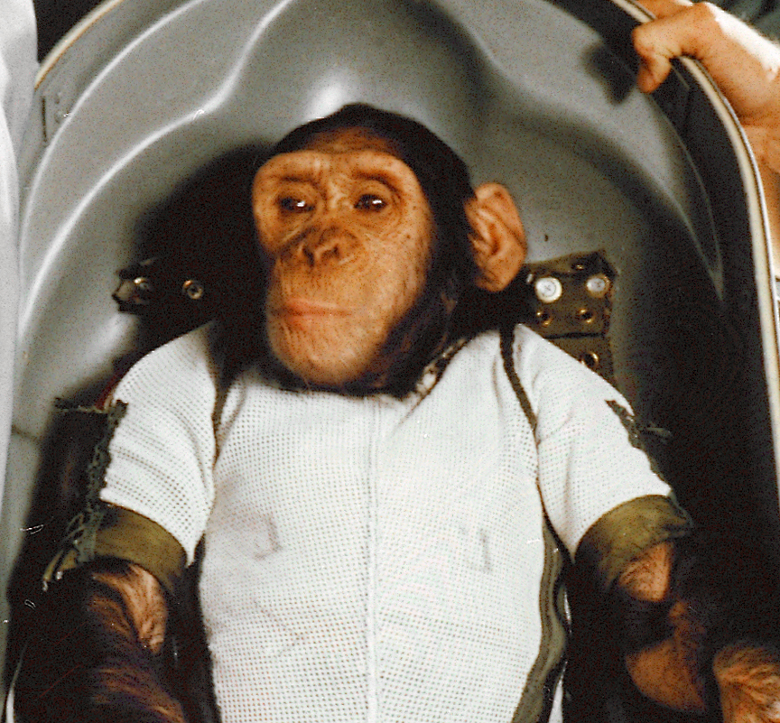 A three-year-old chimpanzee, named Ham, in the biopack couch for the MR-2 suborbital test flight. On January 31, 1961, a Mercury-Redstone launch from Cape Canaveral carried the chimpanzee "Ham" over 640 kilometers (400 mi) down range in an arching trajectory that reached a peak of 254 kilometers (158 mi) above the Earth. The mission was successful and Ham performed his lever-pulling task well in response to the flashing light. NASA used chimpanzees and other primates to test the Mercury capsule before launching the first American astronaut Alan Shepard in May 1961. The successful flight and recovery confirmed the soundness of the Mercury-Redstone systems.